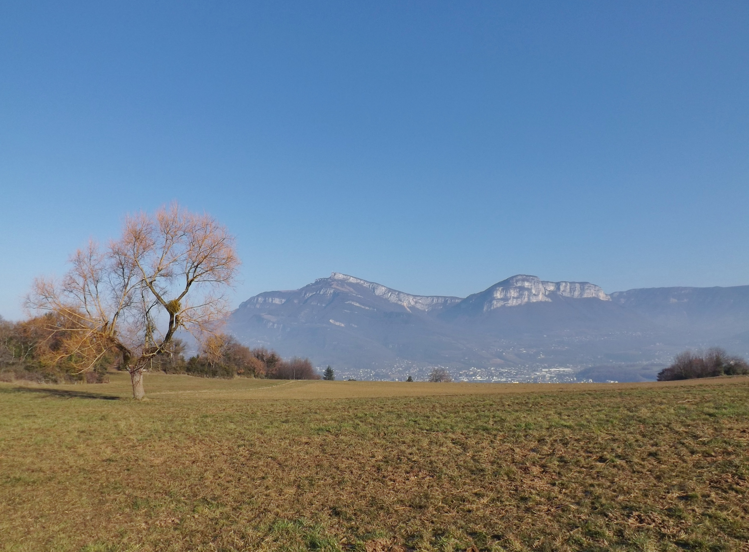 Panoramic sight, from the very South of Chambéry commune in Savoie (France), on the Chambéry valley with the Bauges mountain range at the background.